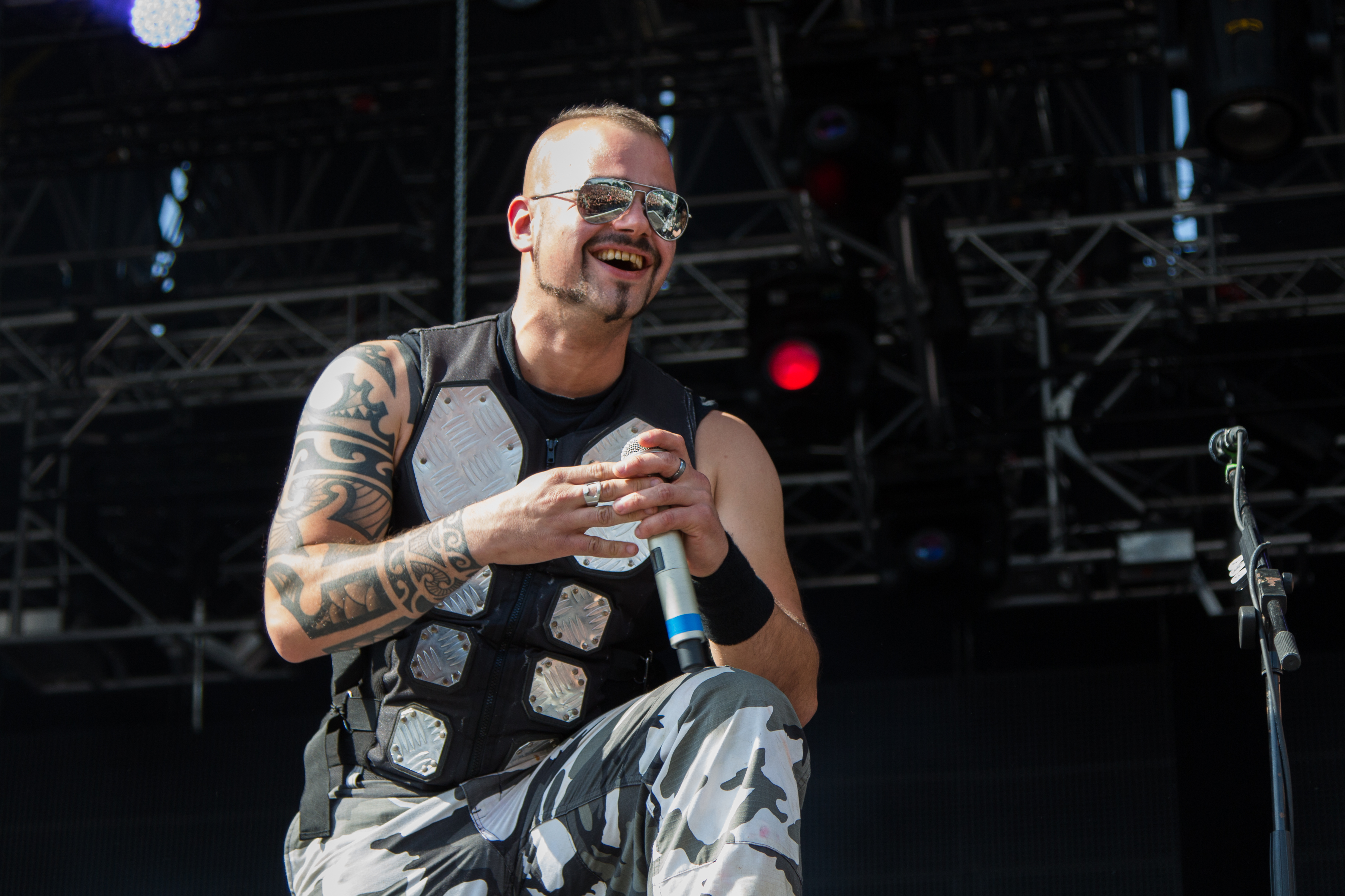 Joakim Brodén from Sabaton at the See-Rock Festival 2014